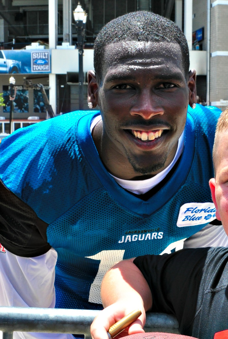 Rookie Marqise Lee at 2014 Jaguars training camp.